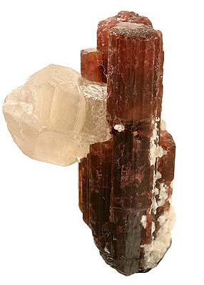 Quartz, Tourmaline Locality: Otjua, Karibib District, Erongo Region, Namibia (Locality at ) I have never seen a Namibian tourmaline quite like this: a sceptered quartz crystal is growing right off its side! In fact, the tourmaline altered its form as it grew around the stalk of this scepter, having its growth blocked in the area of the quartz and then continuing its growth to form three separate terminations at the top (two of them are complete and one is a contact). Typical of many tourmalines from this locality, it is no match in gemminess for a good Brazilian one, but as a unique locality piece it is really something! 5 x 3.5 x 2 cm